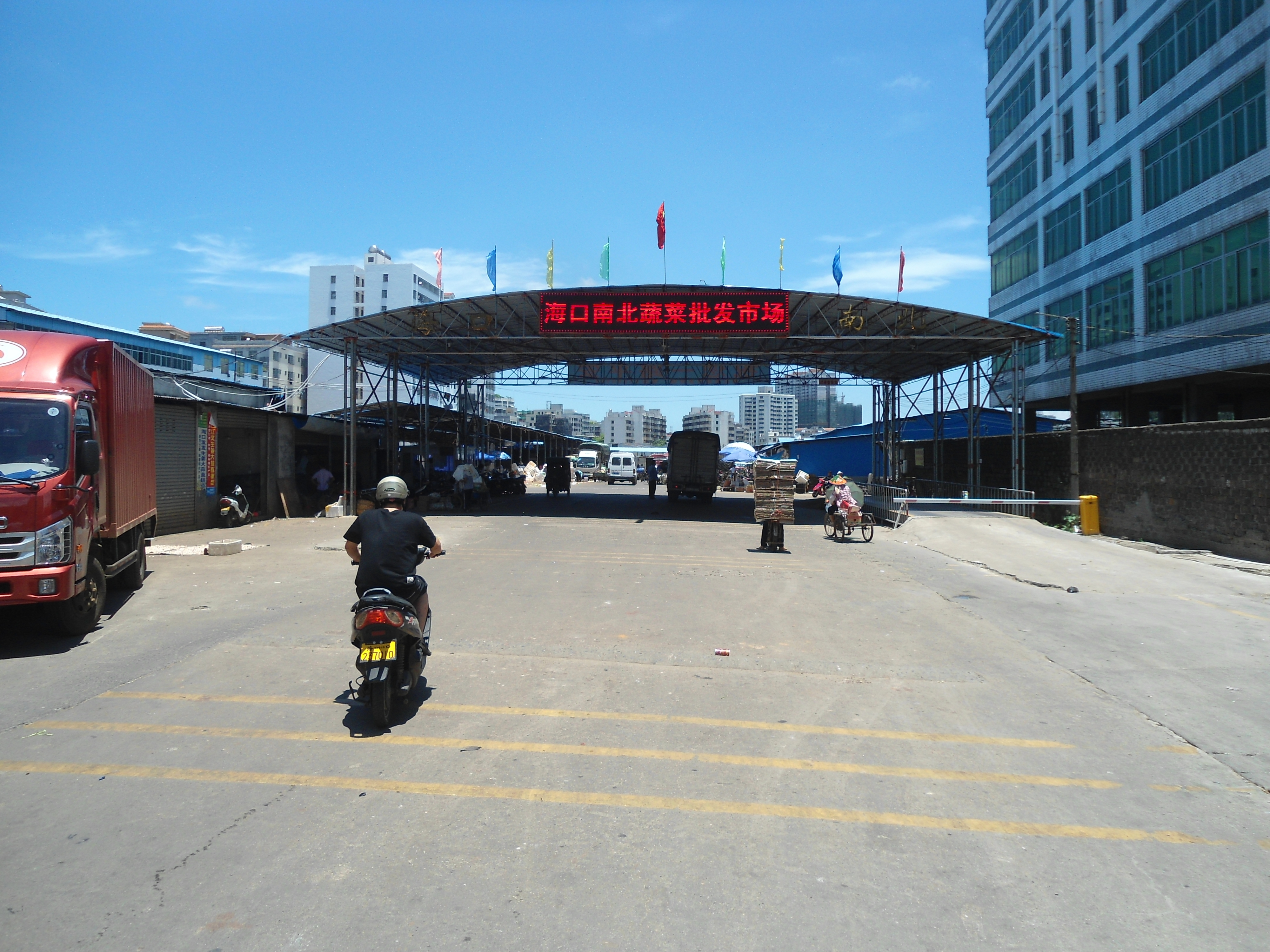 Haikou wholesale vegetable market, Haikou, Hainan, China